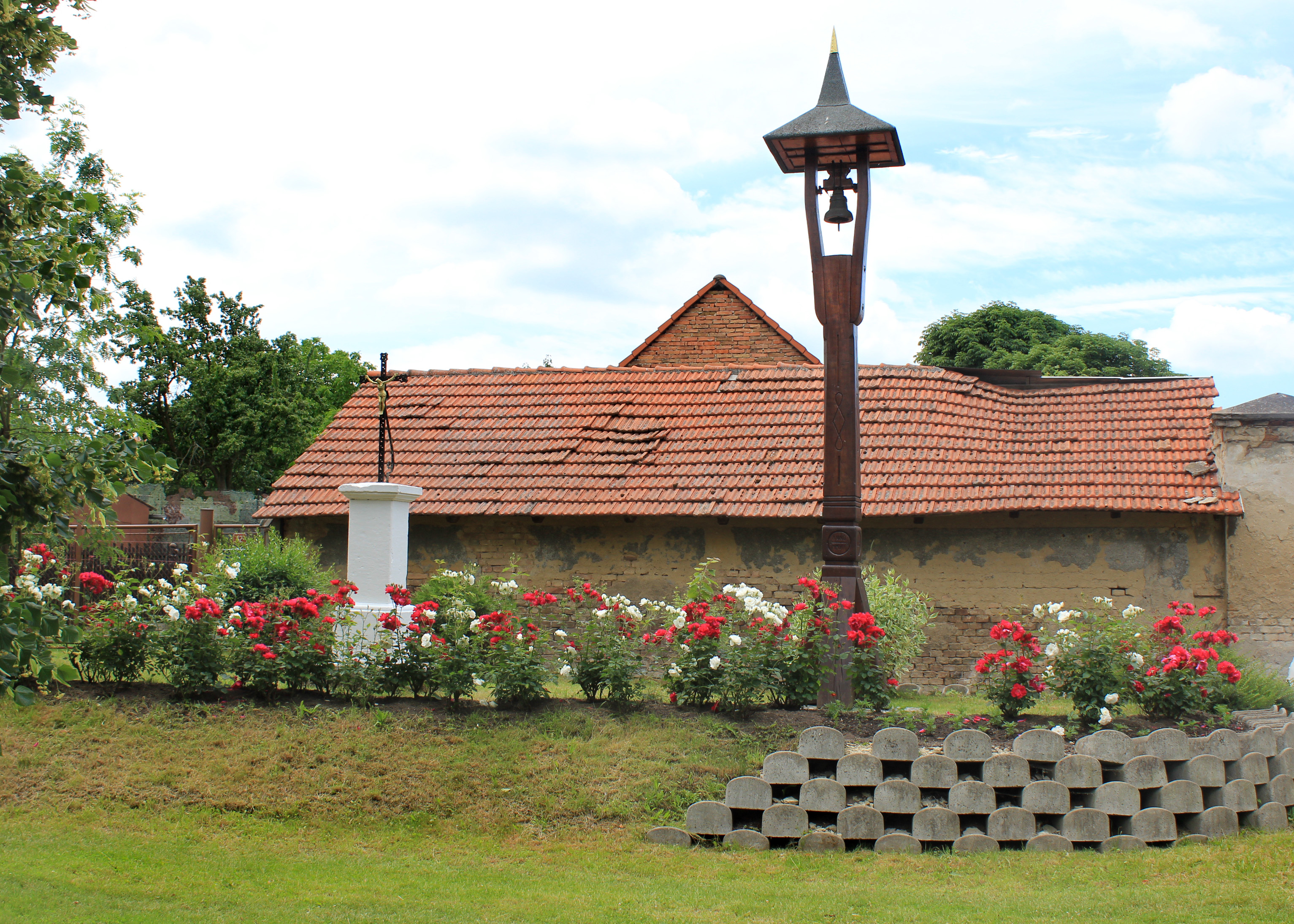 Bell tower in Studečky, part of Loučeň, Czech Republic.